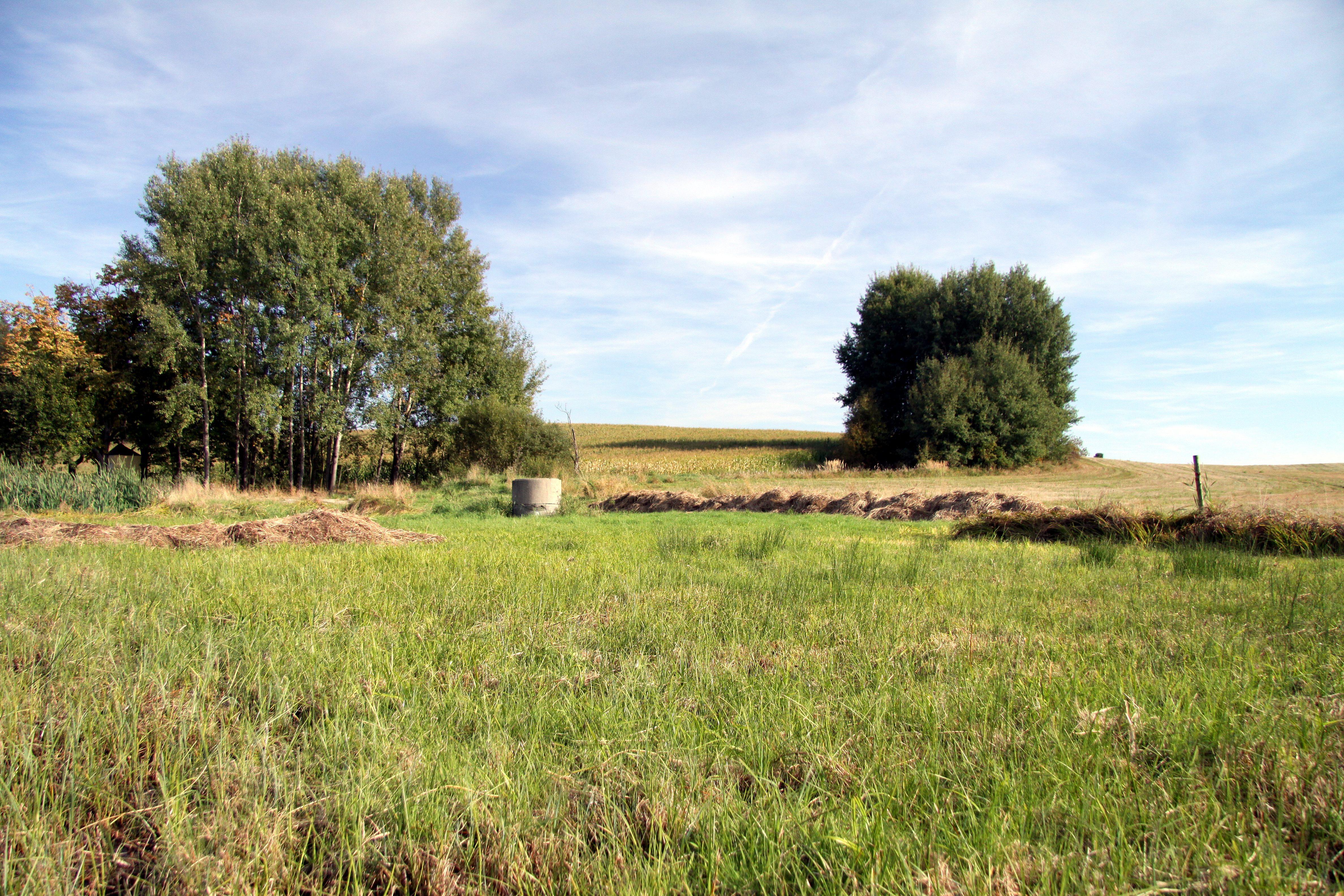 Natural monument Dehetnik, Písek District, Czech Republic - Google Maps - Google Earth